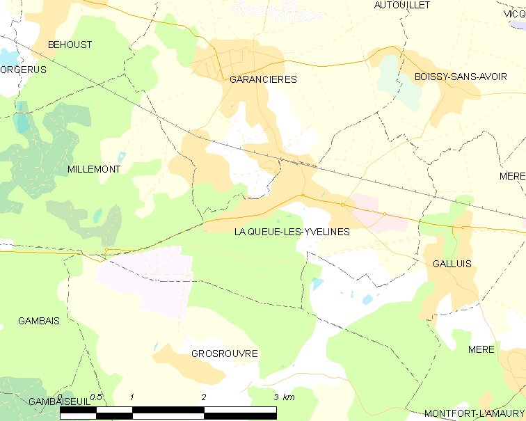 Map of French municipality La Queue-les-Yvelines